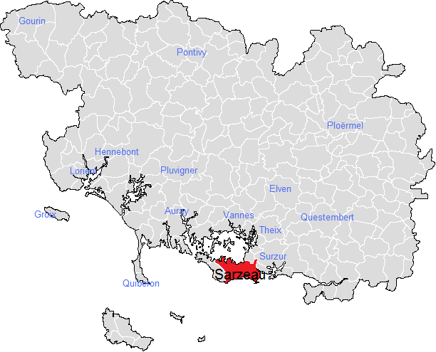 placement Sarzeau in departement Morbihan